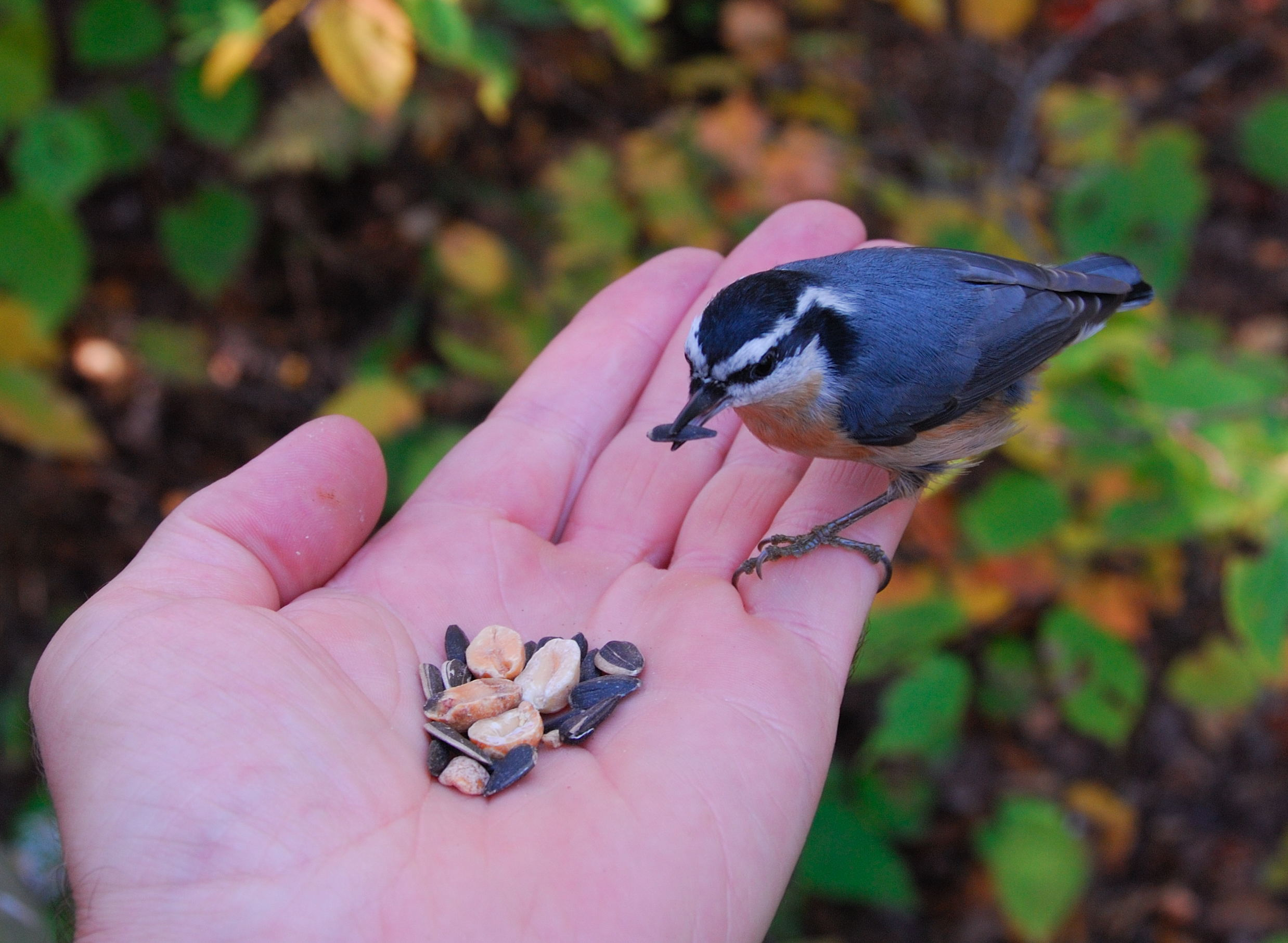 Red-breasted Nuthatch (Sitta canadensis) feeding from a hand.